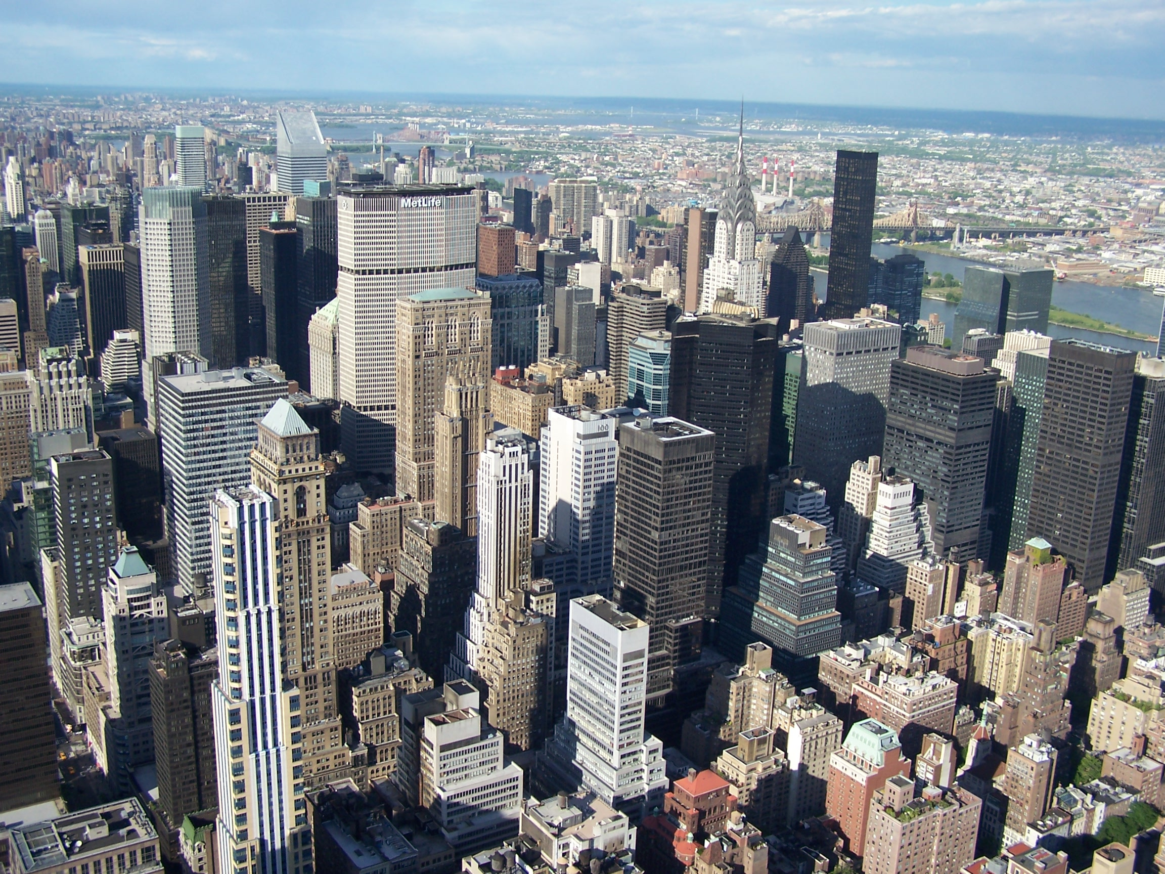 Manhattan, looking east from Empire State Building.